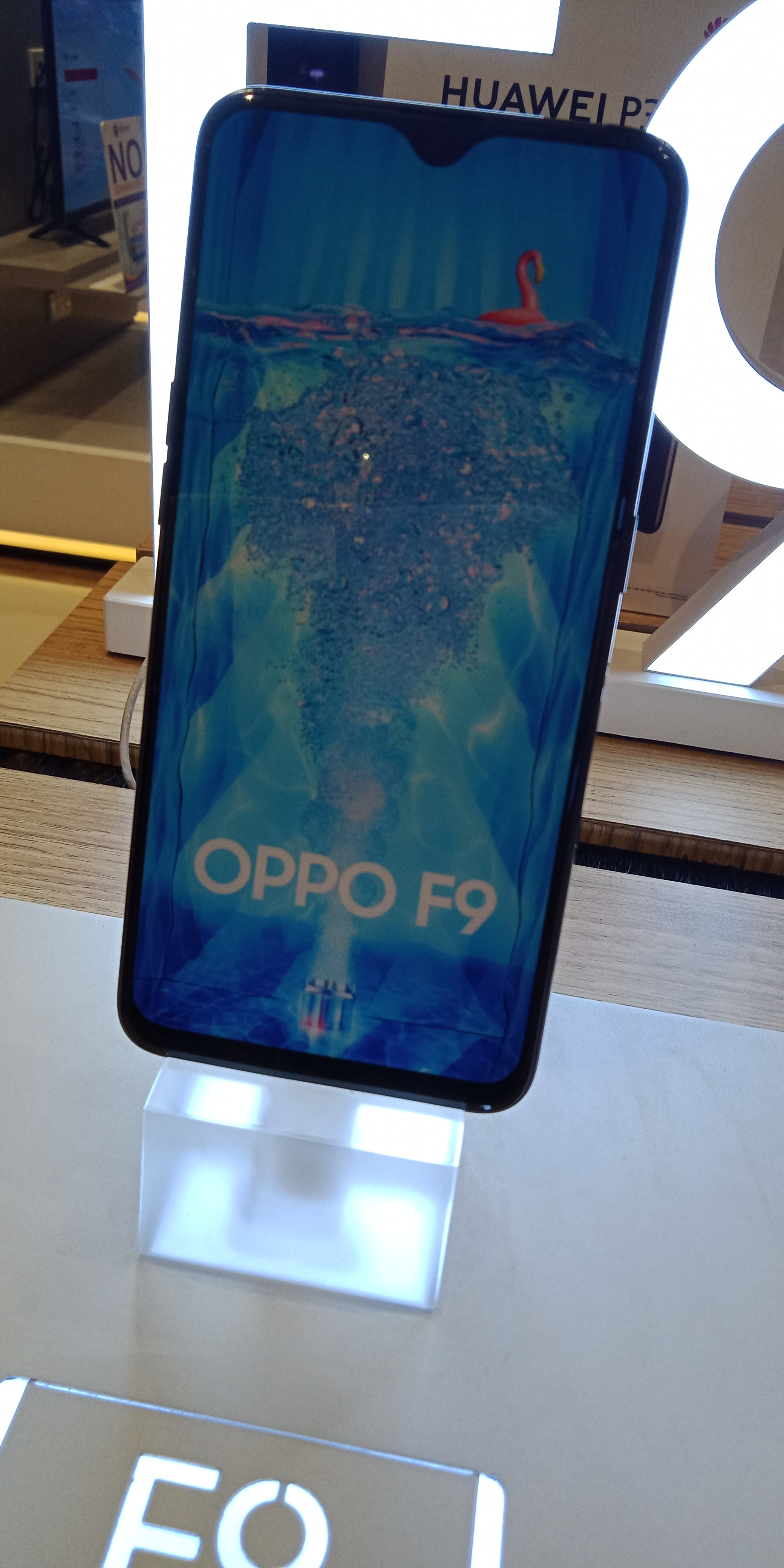 OPPO F9 screen display